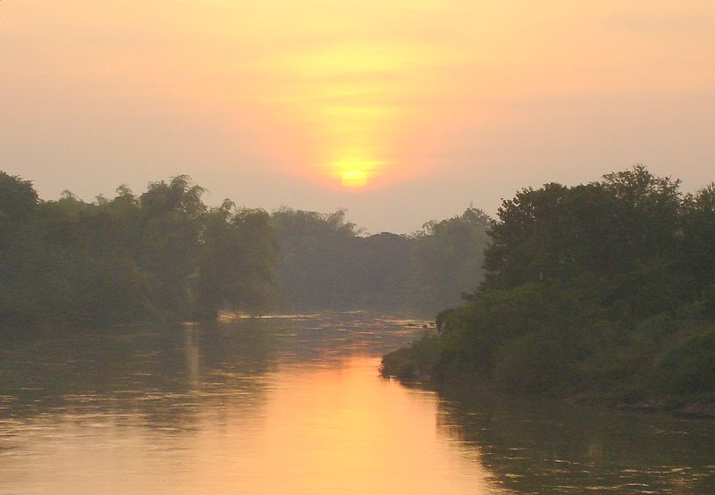 Bend of Argosy Watercourse Village Location: Wat Khung Taphao Ban Khung Taphao, Khung Taphao subdistrict, Mueang Uttaradit, Uttaradit Province, Thailand.